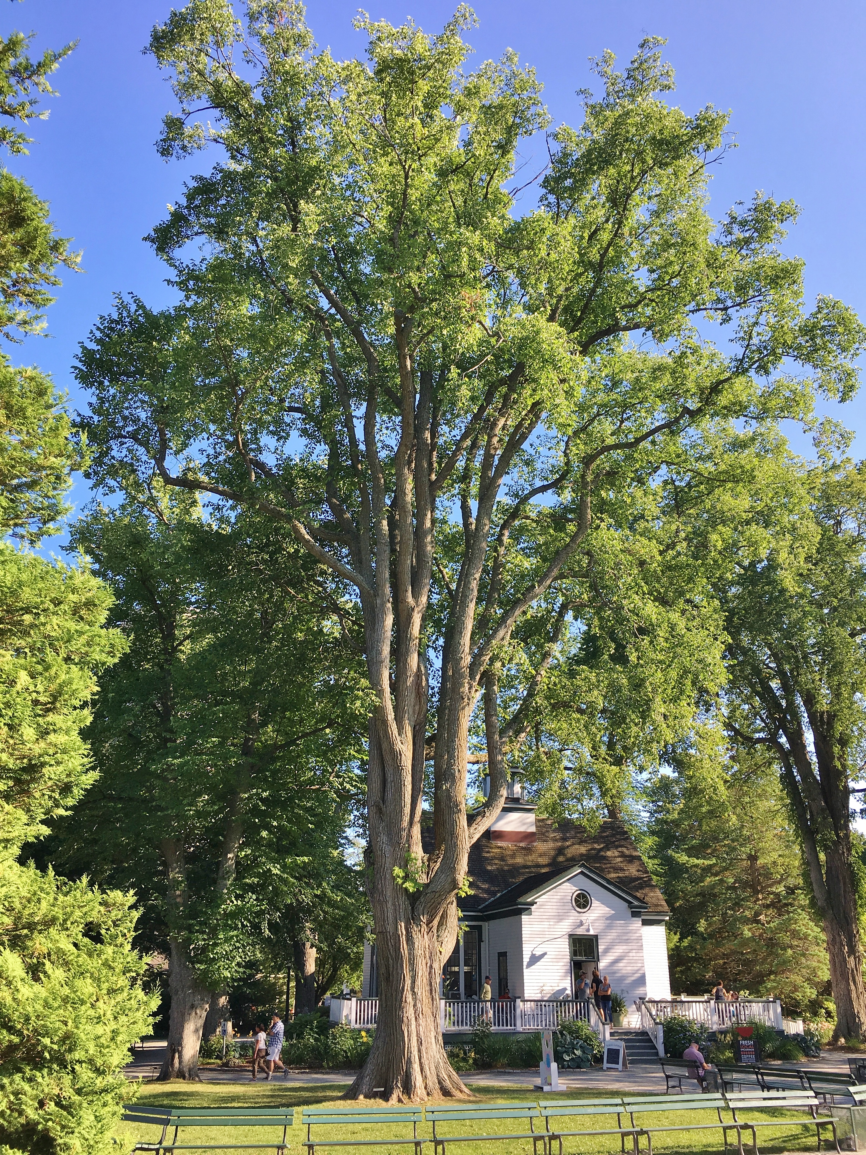 Photograph of an old American elm tree located near the Horticultural Hall & Cafe in the Halifax Public Gardens, Halifax, Nova Scotia, Canada (August 2019)